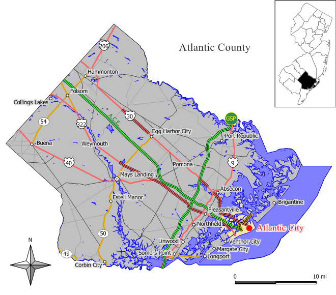 Source: Jim Irwin Original work by Jim Irwin, December 2005.